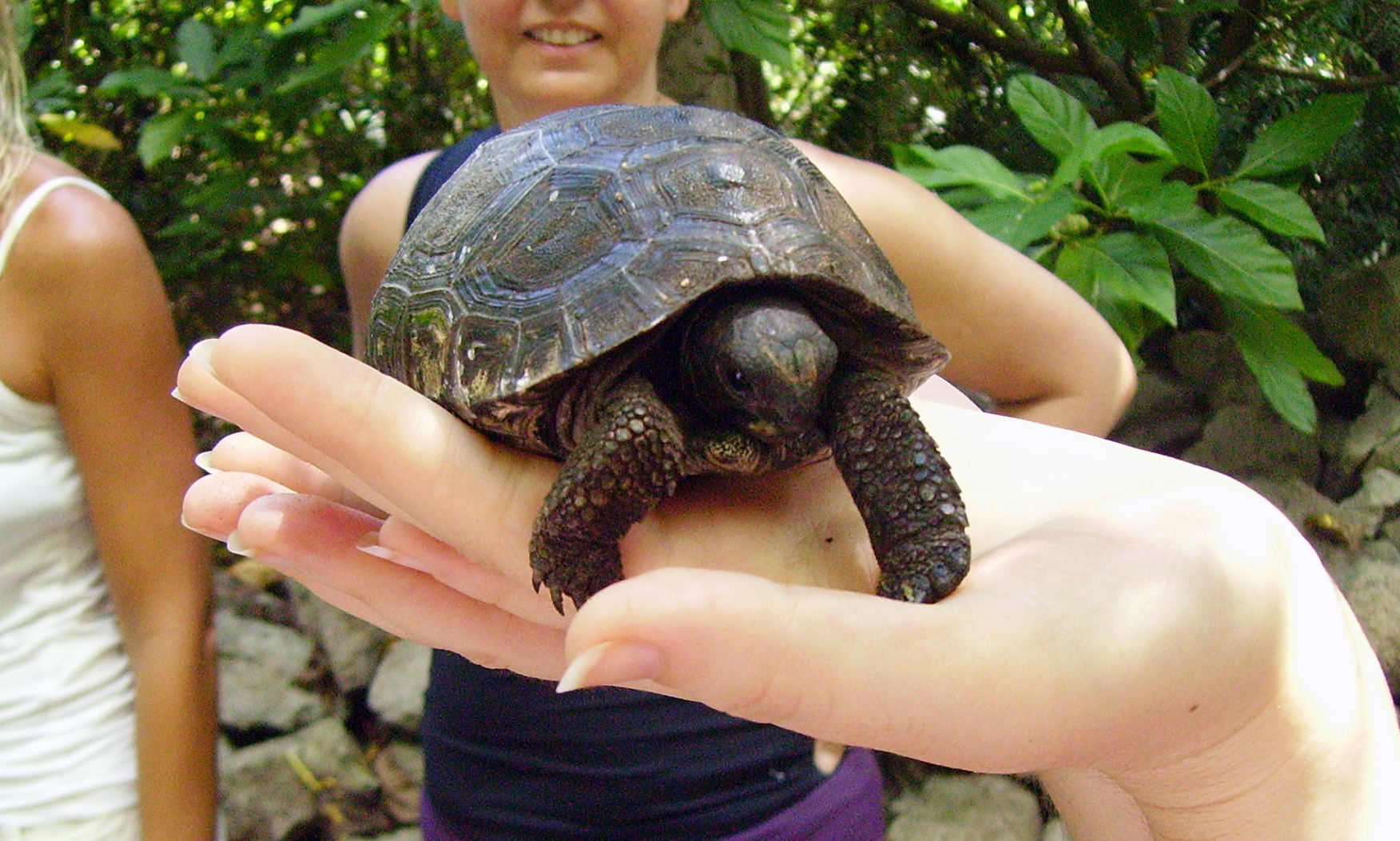 Young Seychelles-Giant-Tortoise (Dipsochelys hololissa) - apr. 2-3 weeks old - on Island Cousin, Seychelles. Photo taken by User in May 2006.